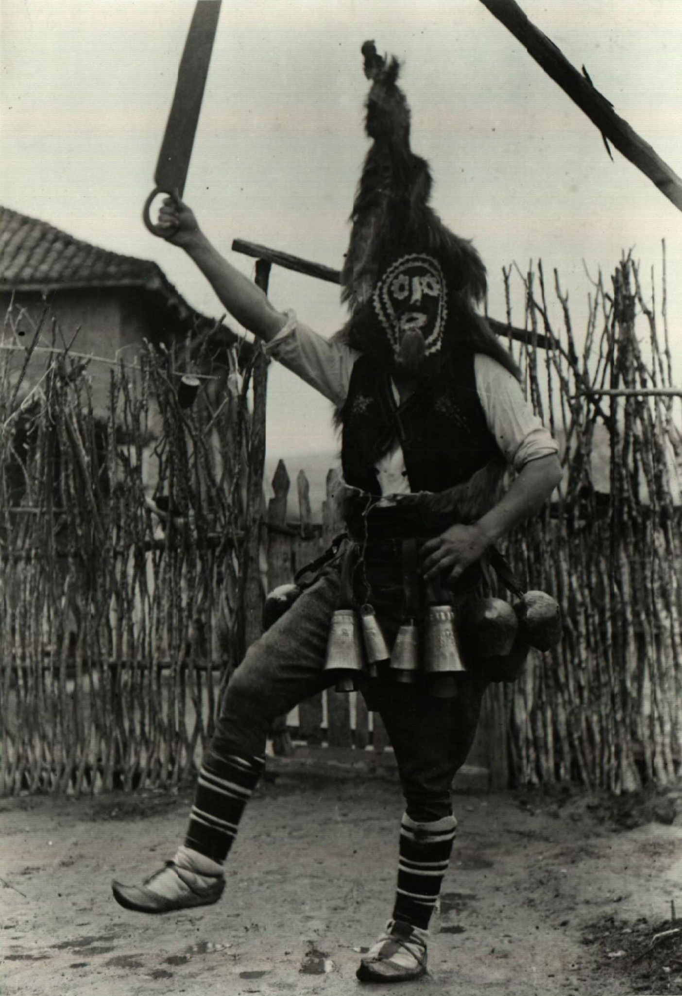 Kukeri from Bulgaria